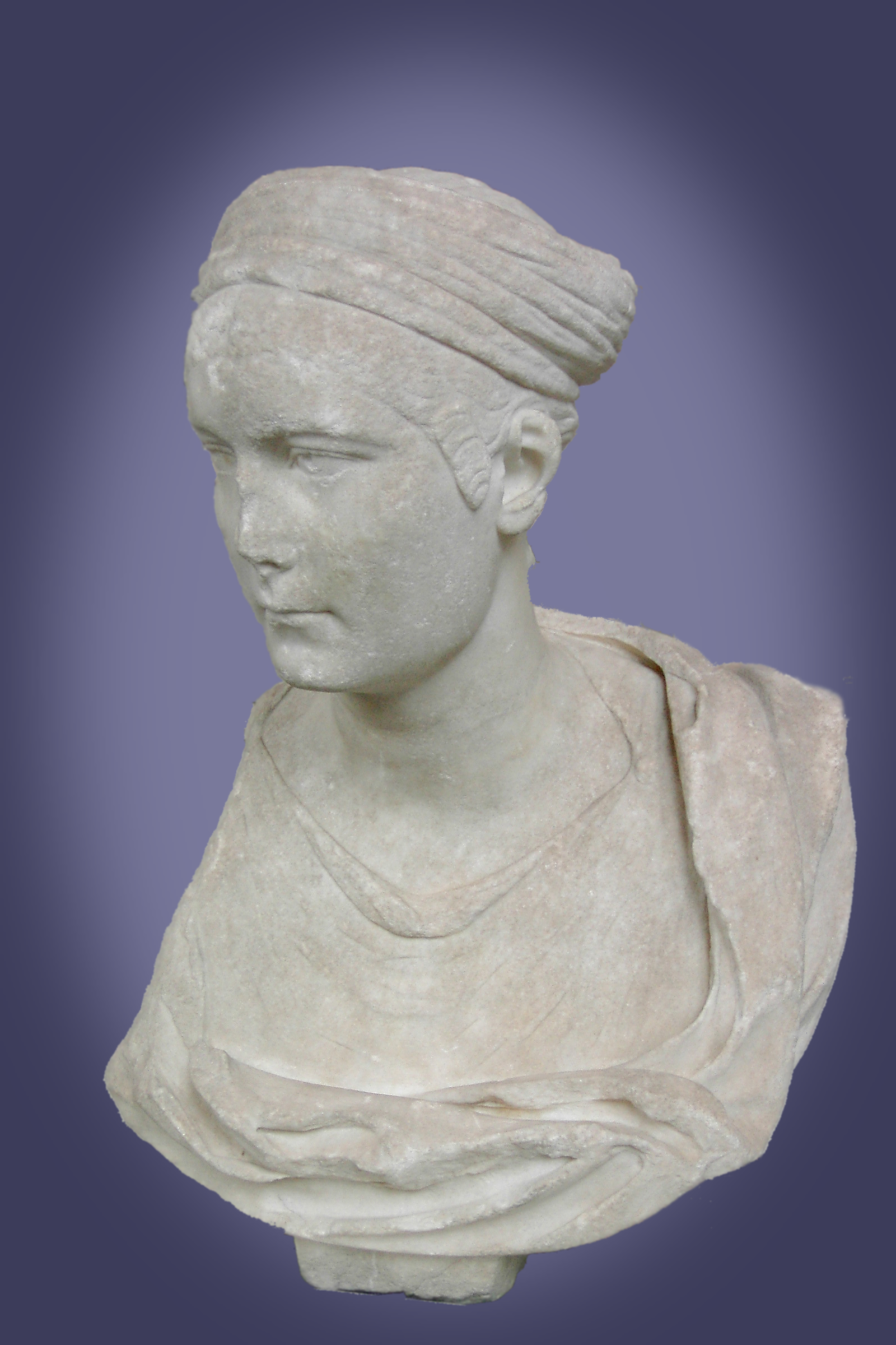 Anonymous (Roman). Portrait of Avidia Plautia. Ca. 136-138 AD. Marble. 54 × 40 × 22 cm (21.2 × 15.7 × 8.6 in). New Haven, Yale University Art Gallery (Inventory number 1992.2.1). Described in catalog as "Portrait of Avidia Plautia" A.D 136–138 .